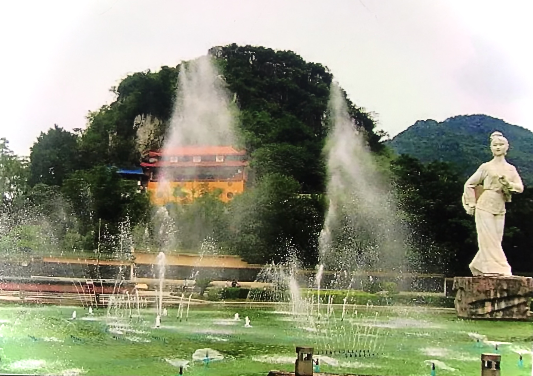 Liu Sanjie is a legendary singer in the Chinese history.